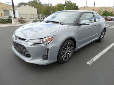 Photo of the new tC